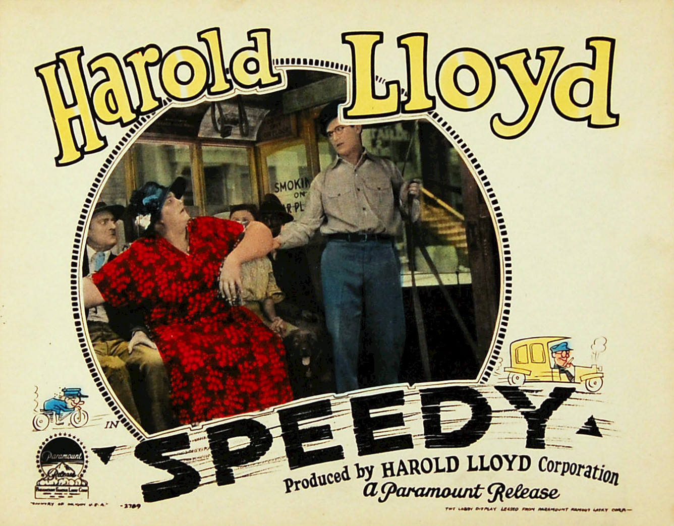 Lobby card from the 1928 American comedy film Speedy with Harold Lloyd.